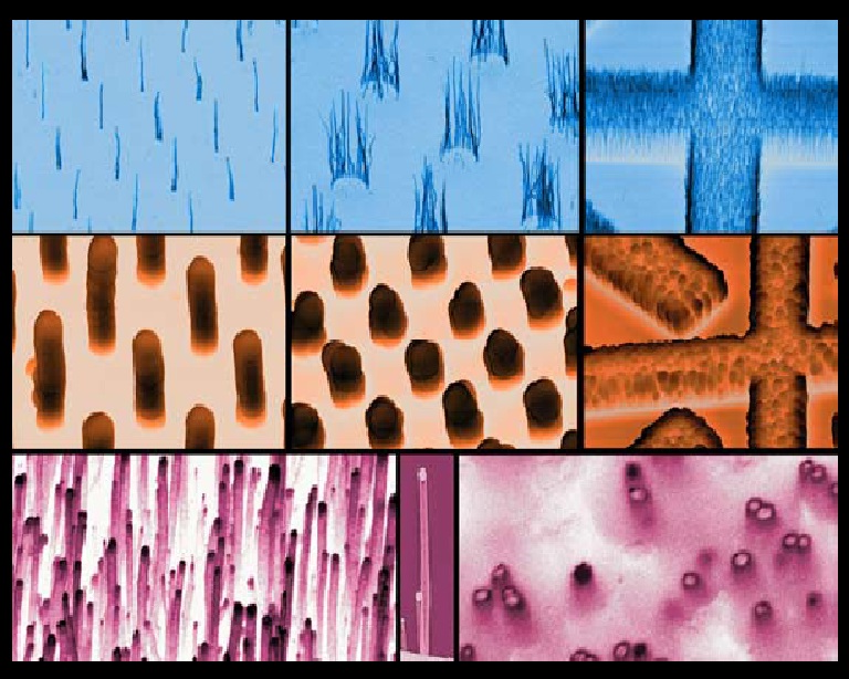 Nanotubes